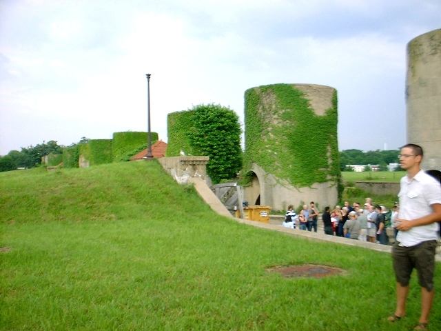 McMillan Park and Slow Sand Filtration Site showing tower-like sand bins